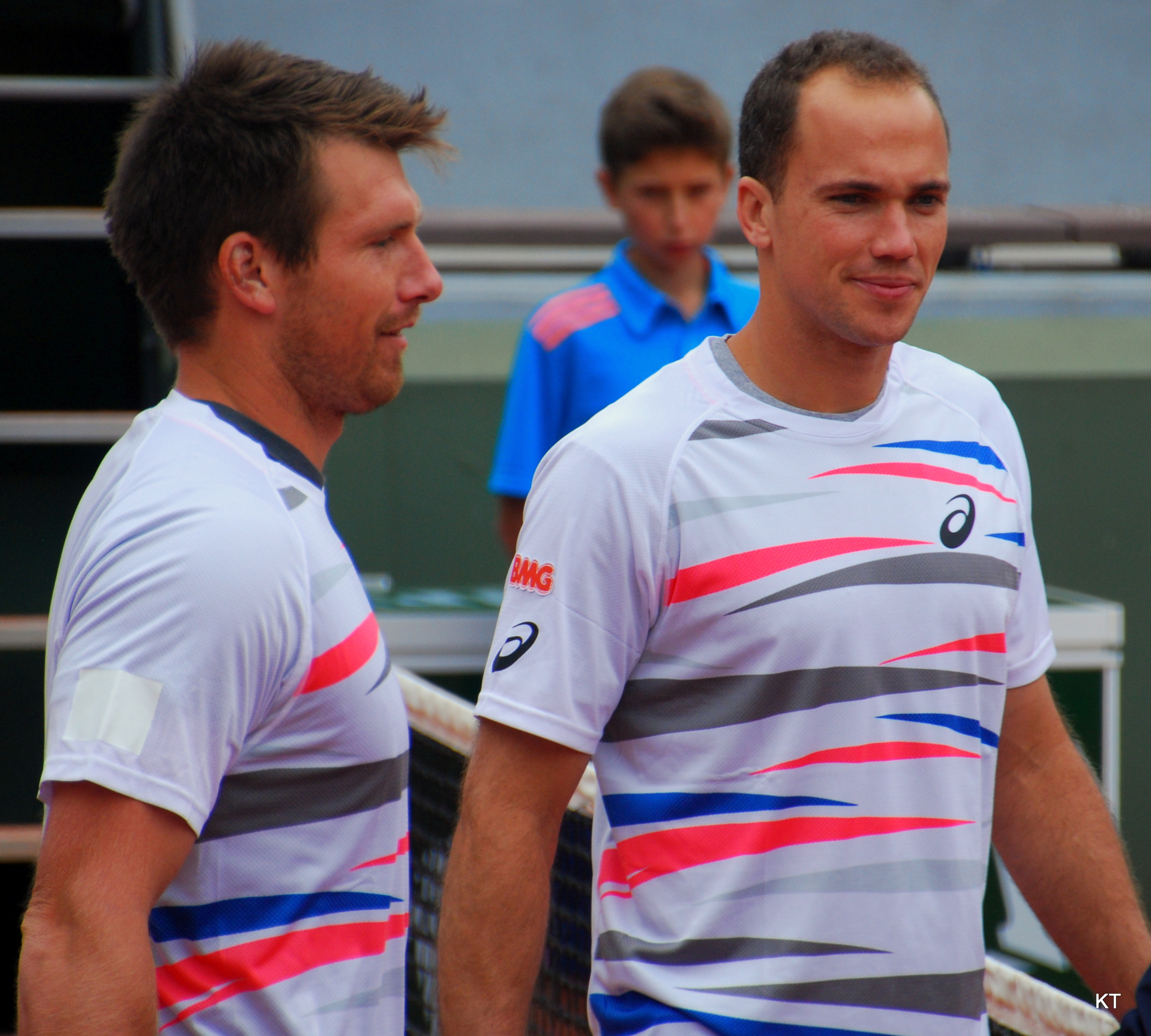 Alexander Peya & Bruno Soares about to start their first round match with Denis Istomin & Lukas Rosol. Day 4 of Roland Garros 2014.